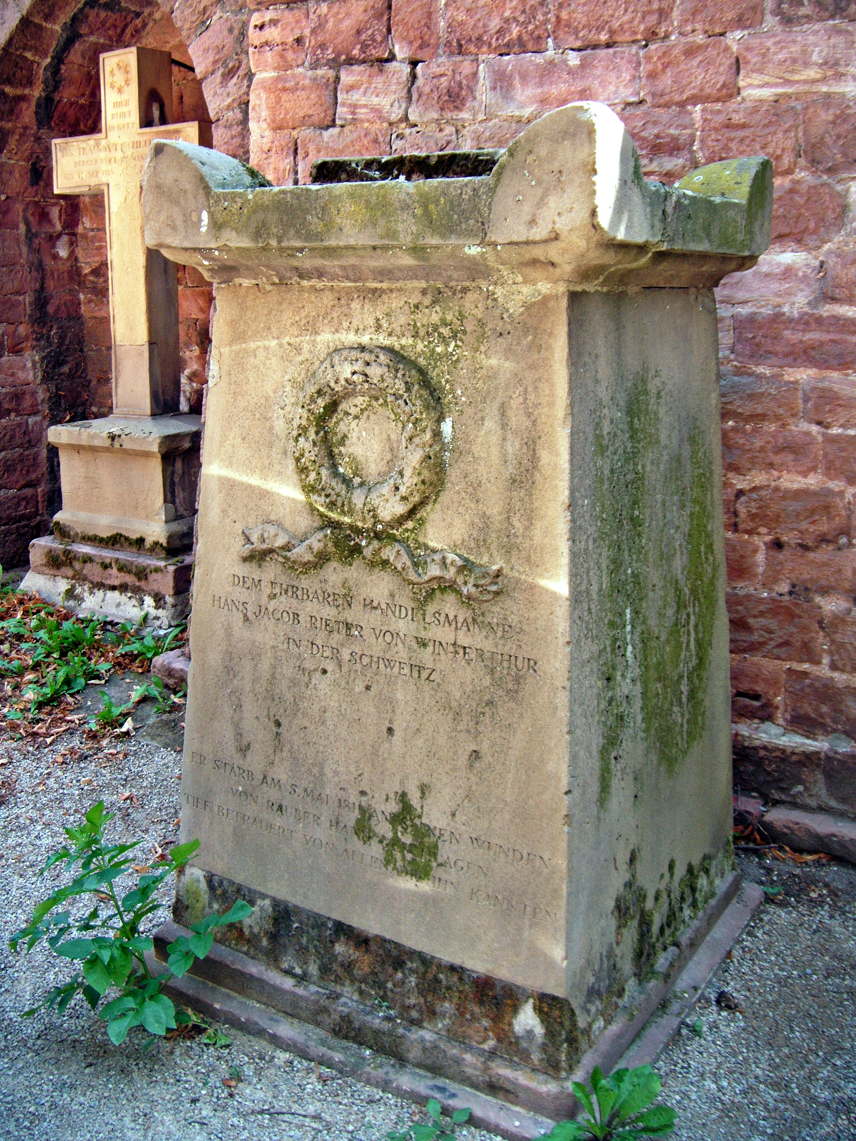 Hans Jacob Rieter (1766-1811), Kaufmann aus Winterthur, ermordet, Grabstein Heidelberg, St. Peter